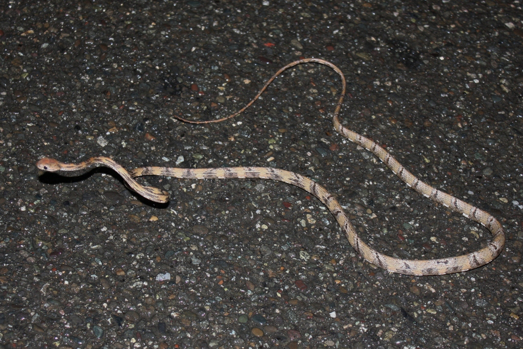 Found crossing the road between Loboc & Corrella.